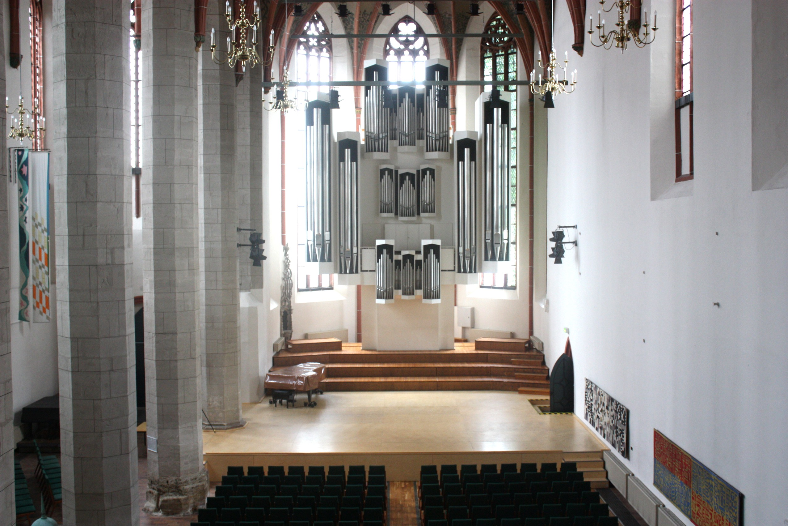 Halle (Saale), St. Ulrich church, inner view